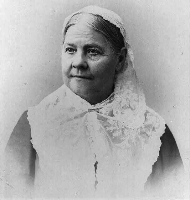 A scan of a photographic portrait of Lucy Stone in middle age, no date recorded on caption card